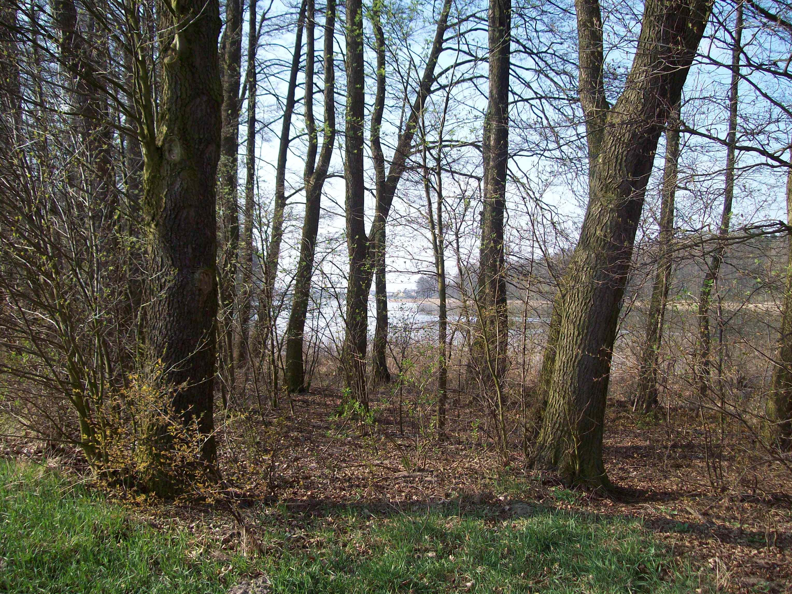 Jezioro Świesz - sight from forest from village Lubsin side